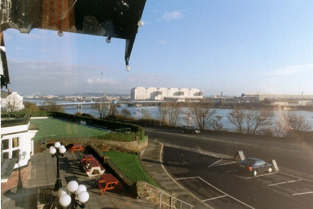 Barrow shipyard from the King Alfred Hotel, Walney Island, looking North